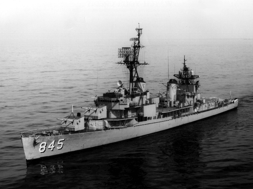 The U.S. Navy destroyer USS Bausell (DD-845) in 1965.